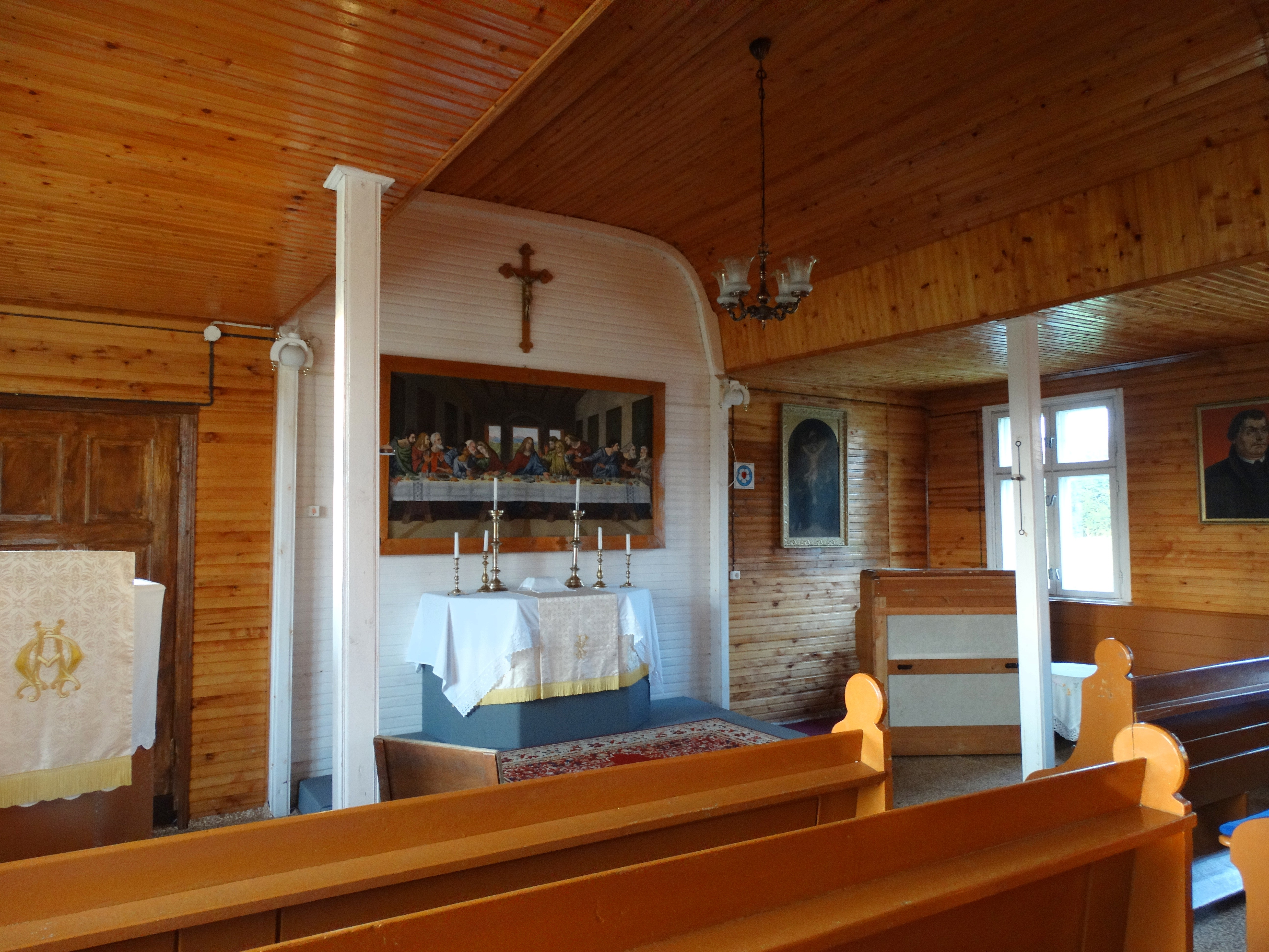 Lutheran Church, Sartininkai, Tauragė district, Lithuania